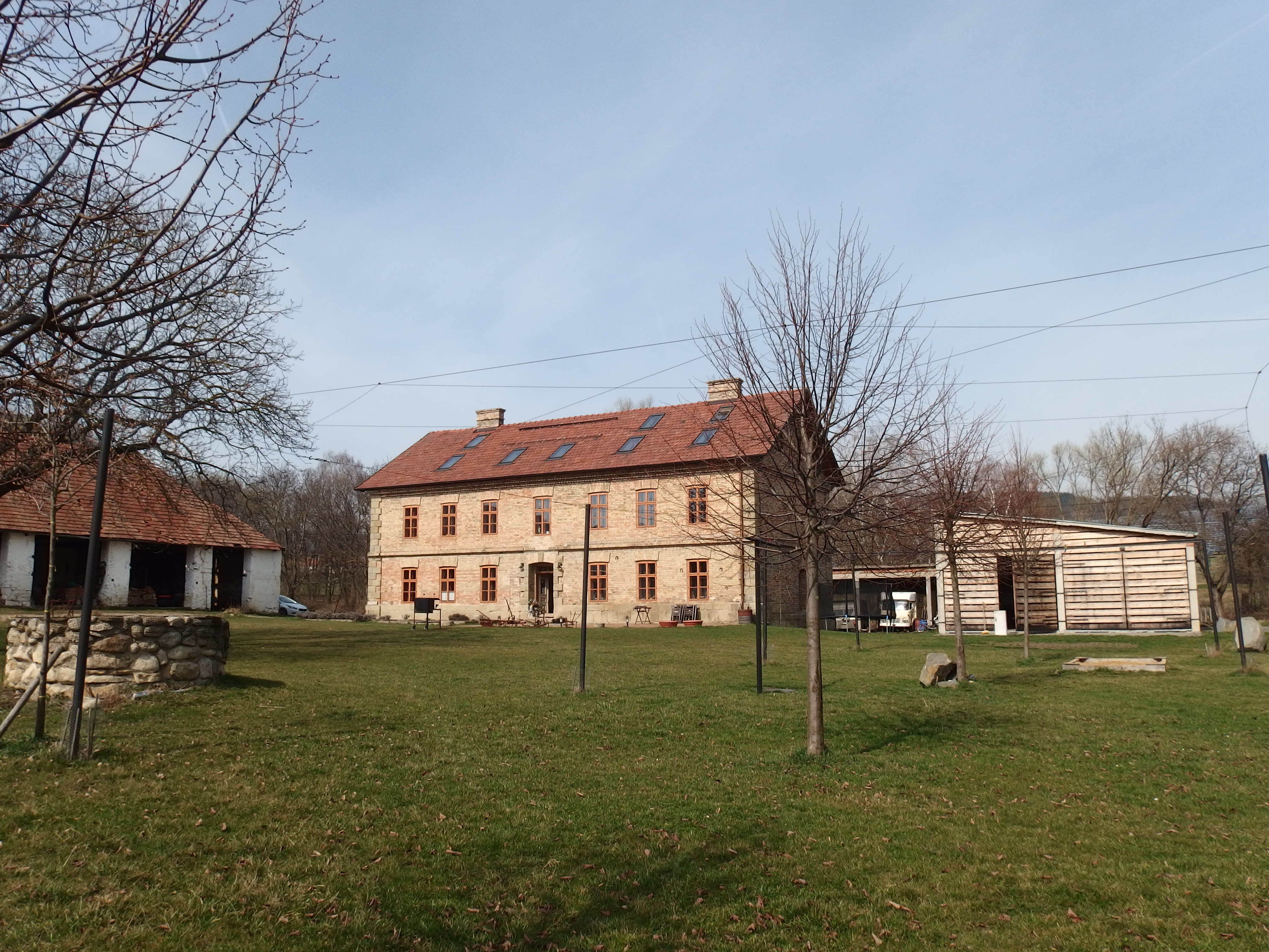 Honětice, Kroměříž District, Czech Republic.